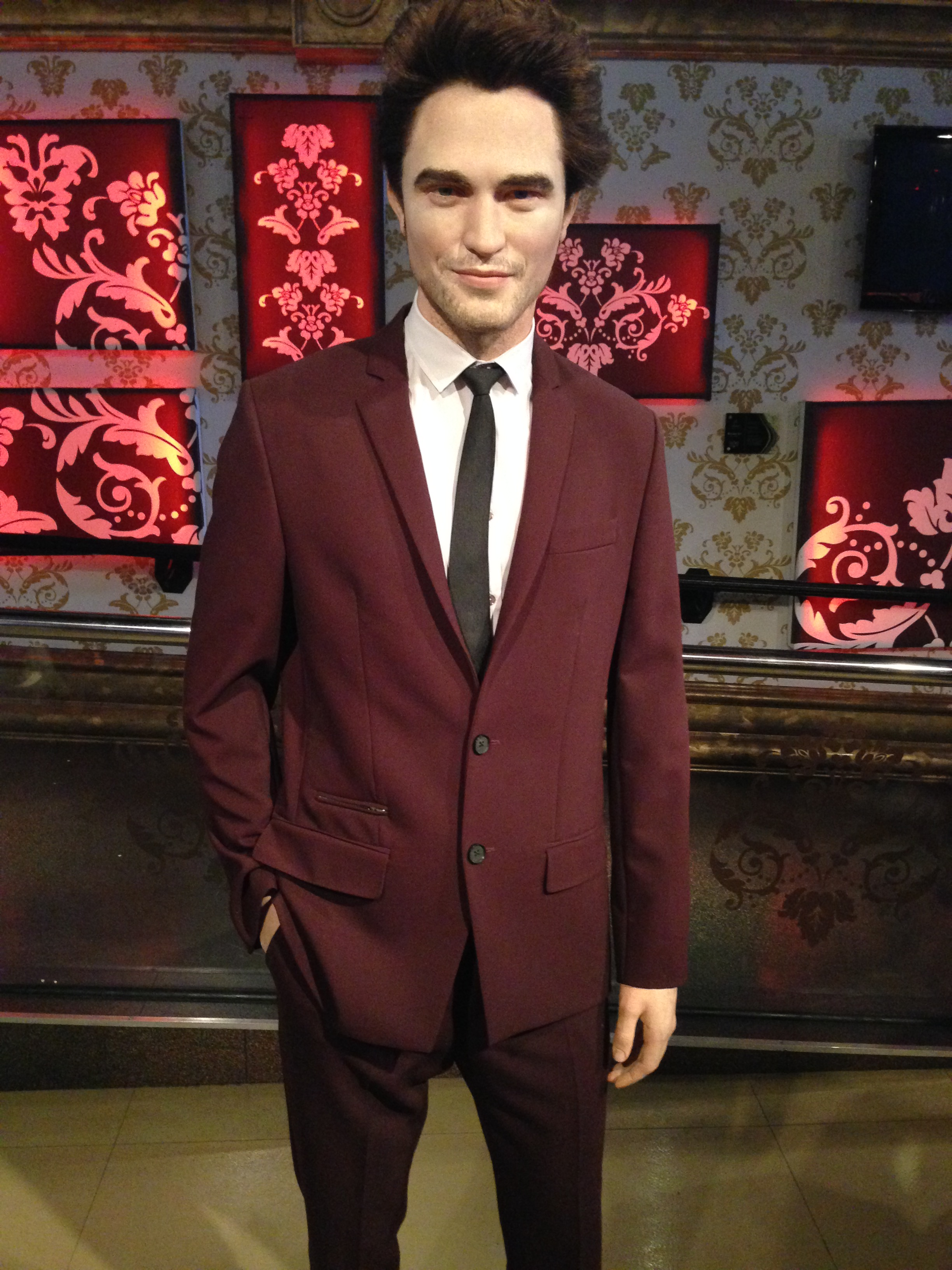 Robert Pattinson at Madame Tussauds London - November 1st, 2016